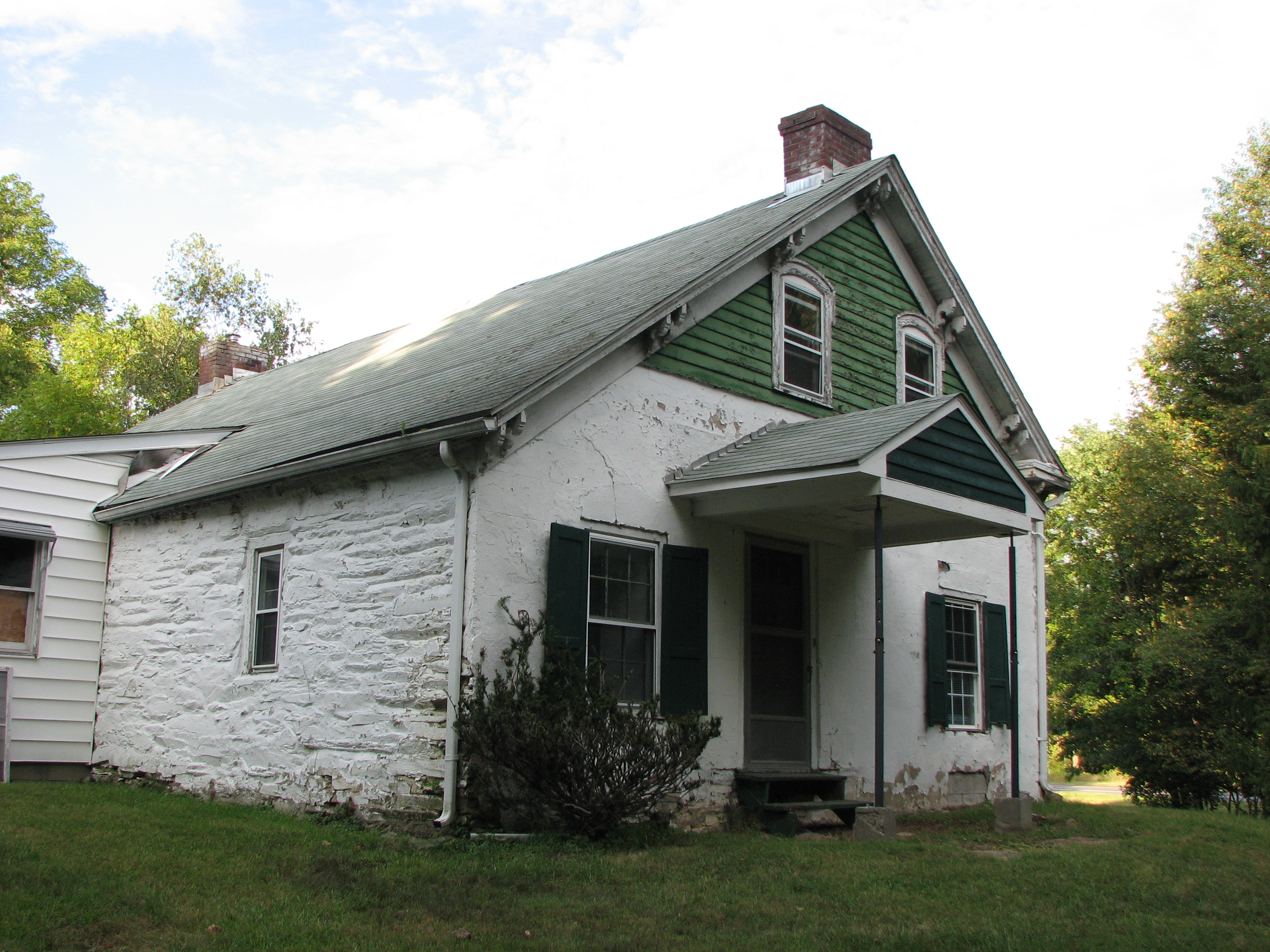 George Rymph House